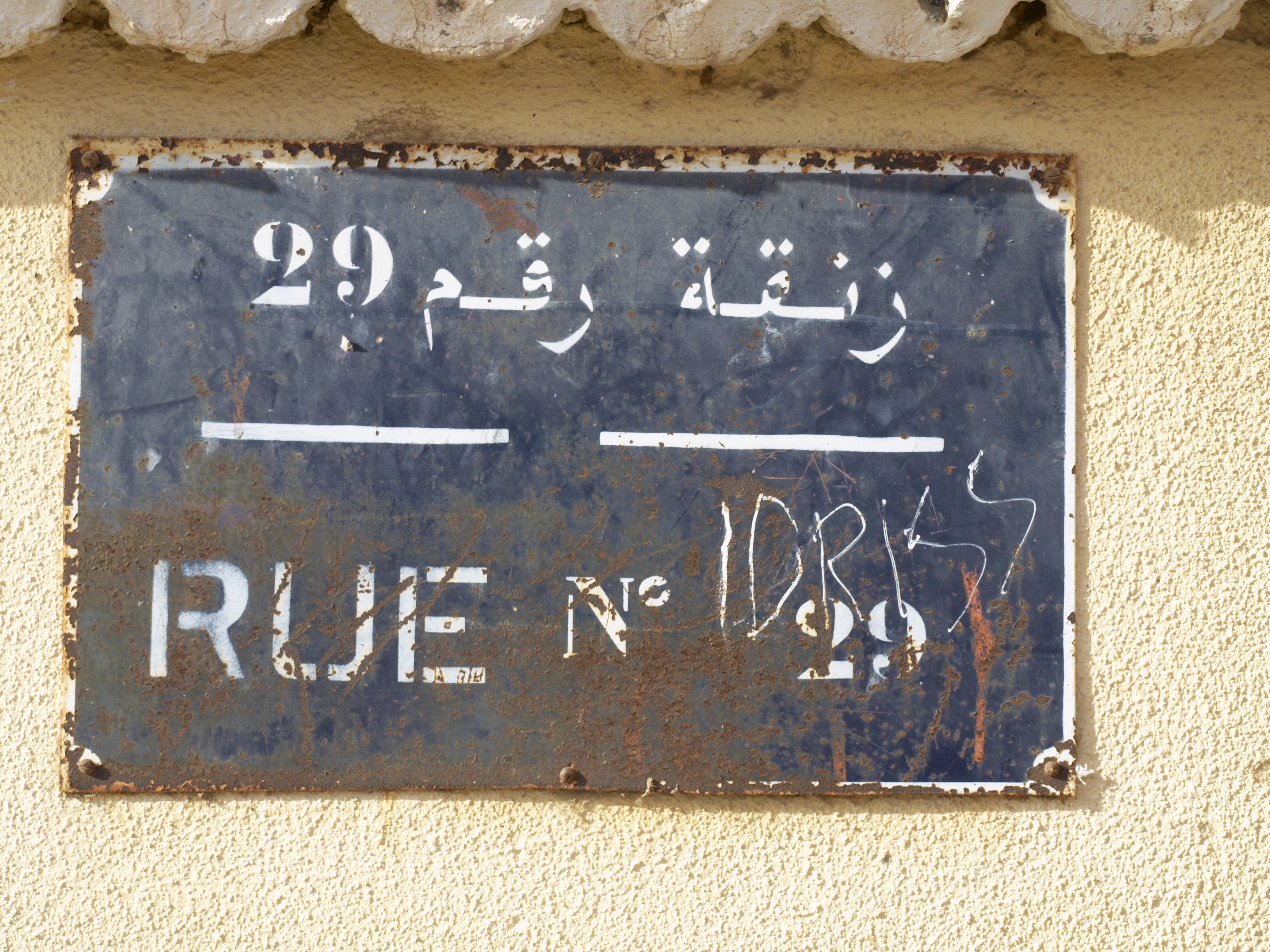 Street sign in El Ayun